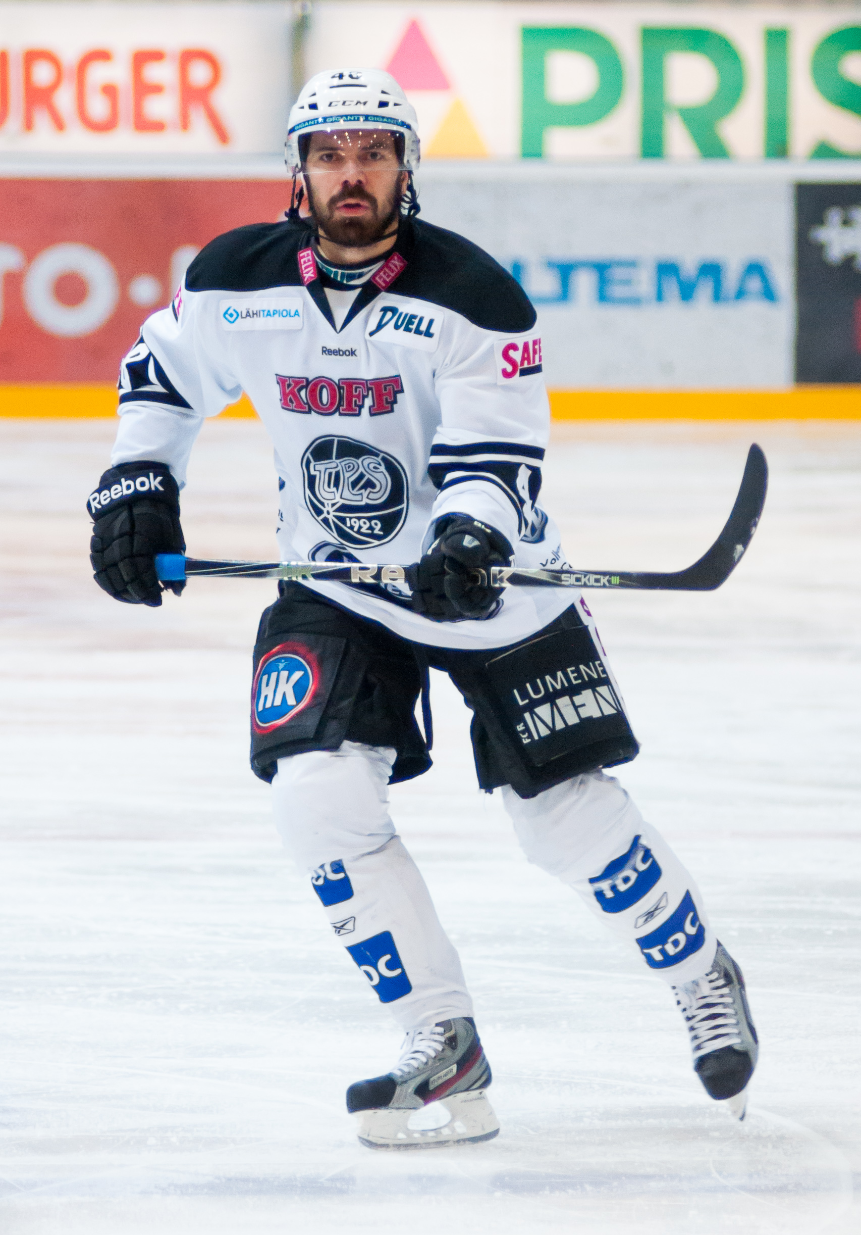 Finnish ice hockey defenseman Hannu Pikkarainen playing for Turun Palloseura against SaiPa Lappeenranta in Lappeenranta, Finland.